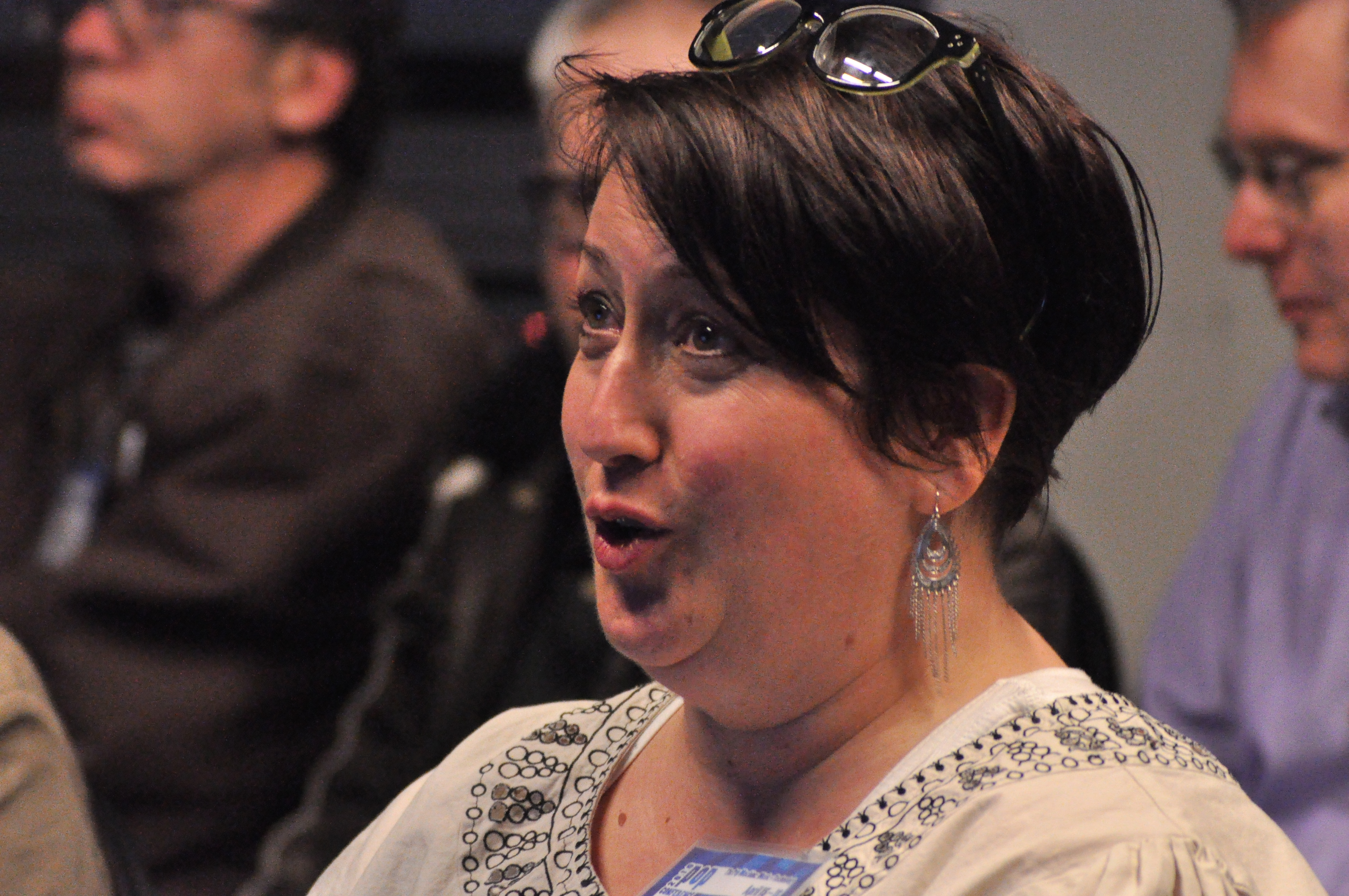 Seattle musician Carrie Akre attending the 2010 Pop Conference, EMPSFM, Seattle, Washington.